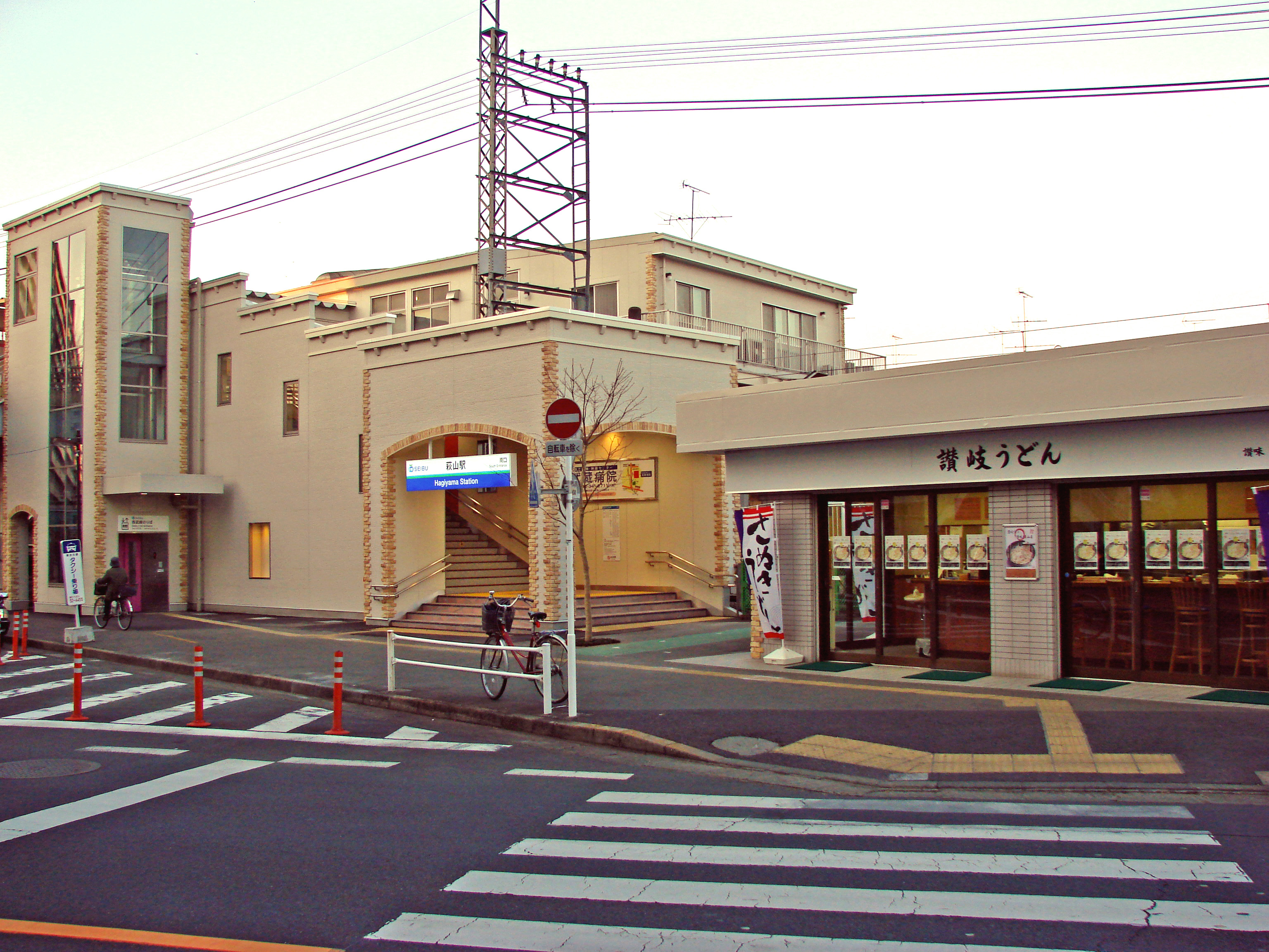 West entrance/exit of Seibu Railways' Hagiyama Station, Higashimurayama, Tokyo, Japan.